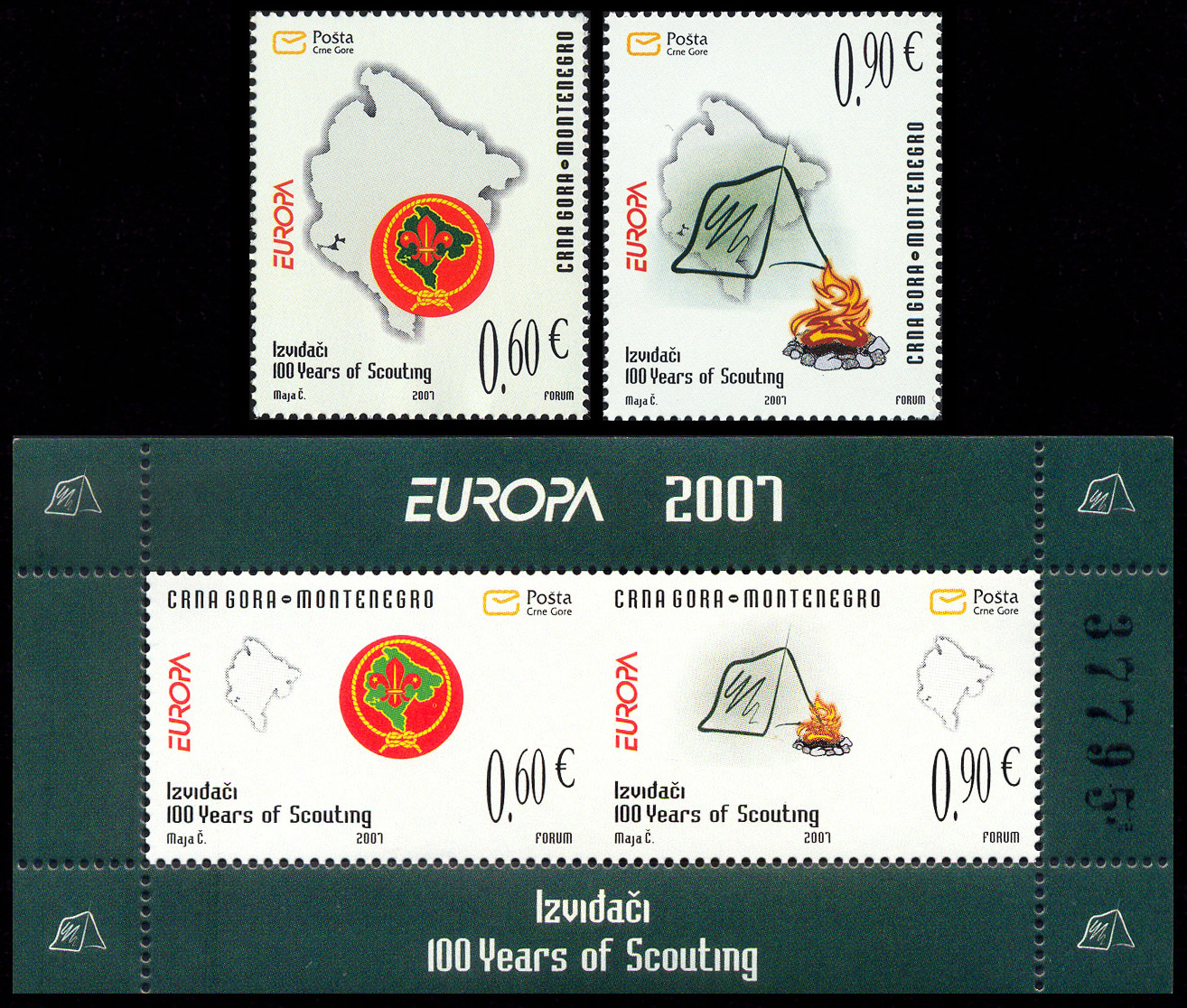 Postage stamps of Montenegro, 2007. 100th anniversary of the scouts. Issue on the program Europa.